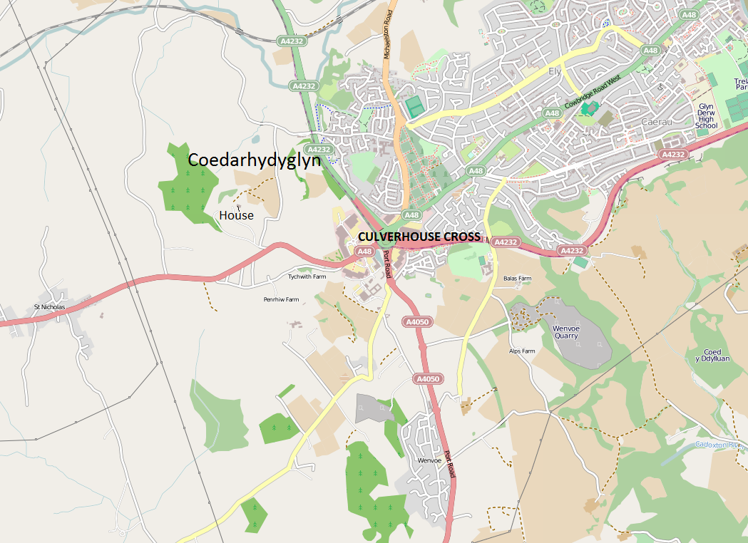 Map showing Coedarhydyglyn and Culverhouse Cross, Vale of Glamorgan/Western Cardiff